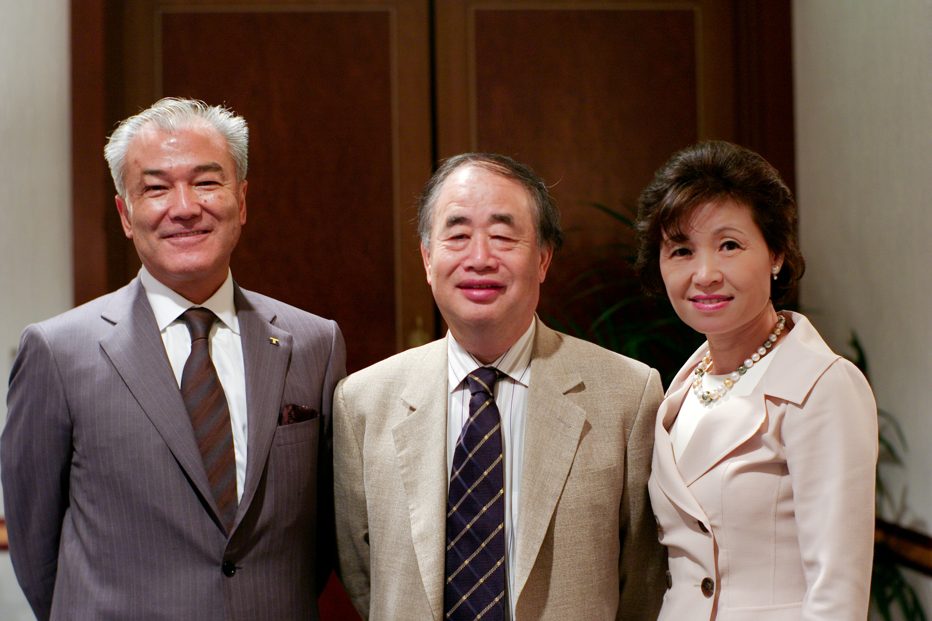 Muneaki Masuda, President of the Culture Convenience Club Co., Ltd., Tsuguhiko Kadokawa, Chairman of Kadokawa Group Holdings, Inc., and Reiko Okutanai, President of the R Co., Ltd., pose for photos in Tōkyō Metropolis on June 19, 2009.